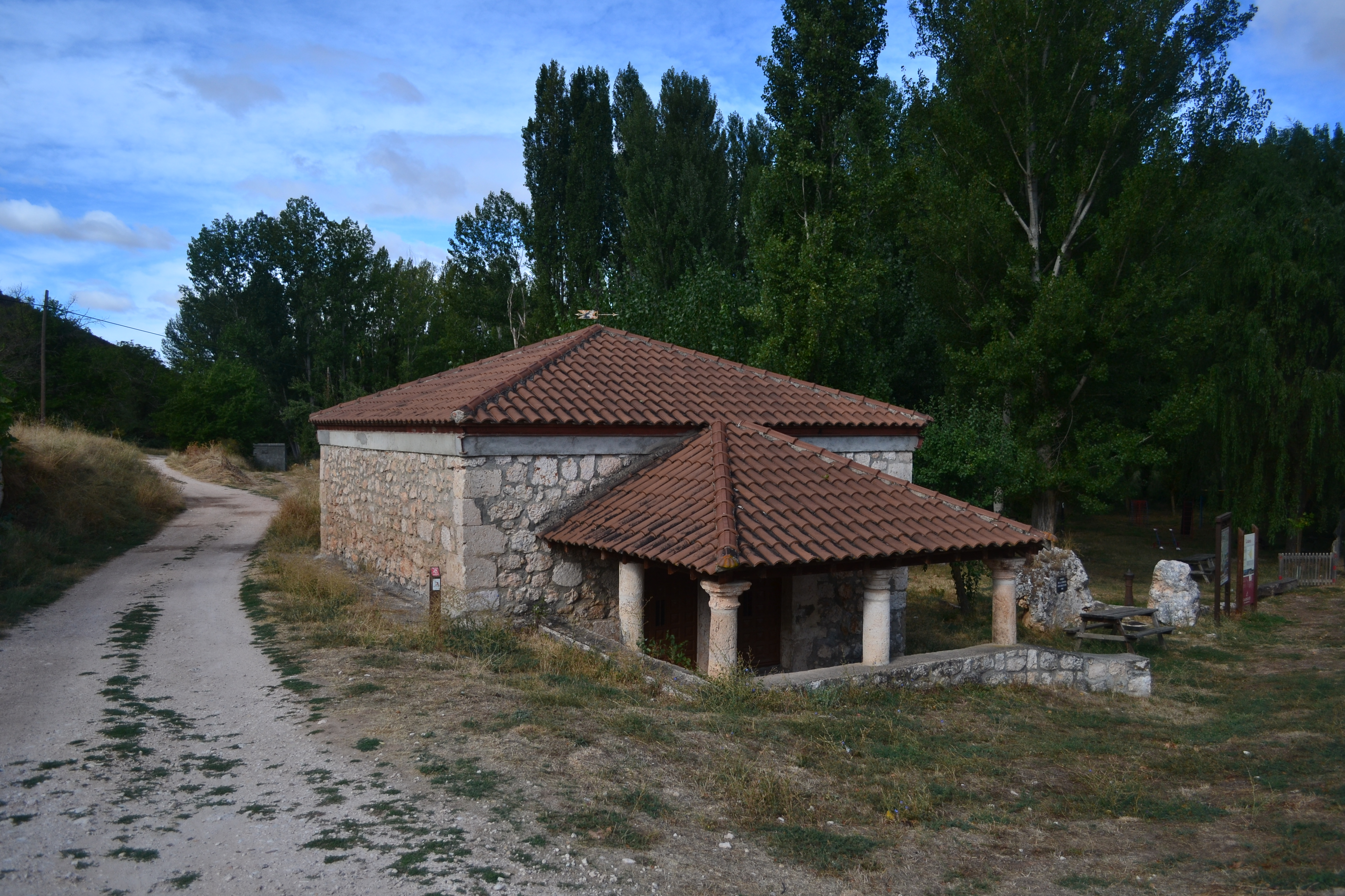 Hermitage of Ledanca.